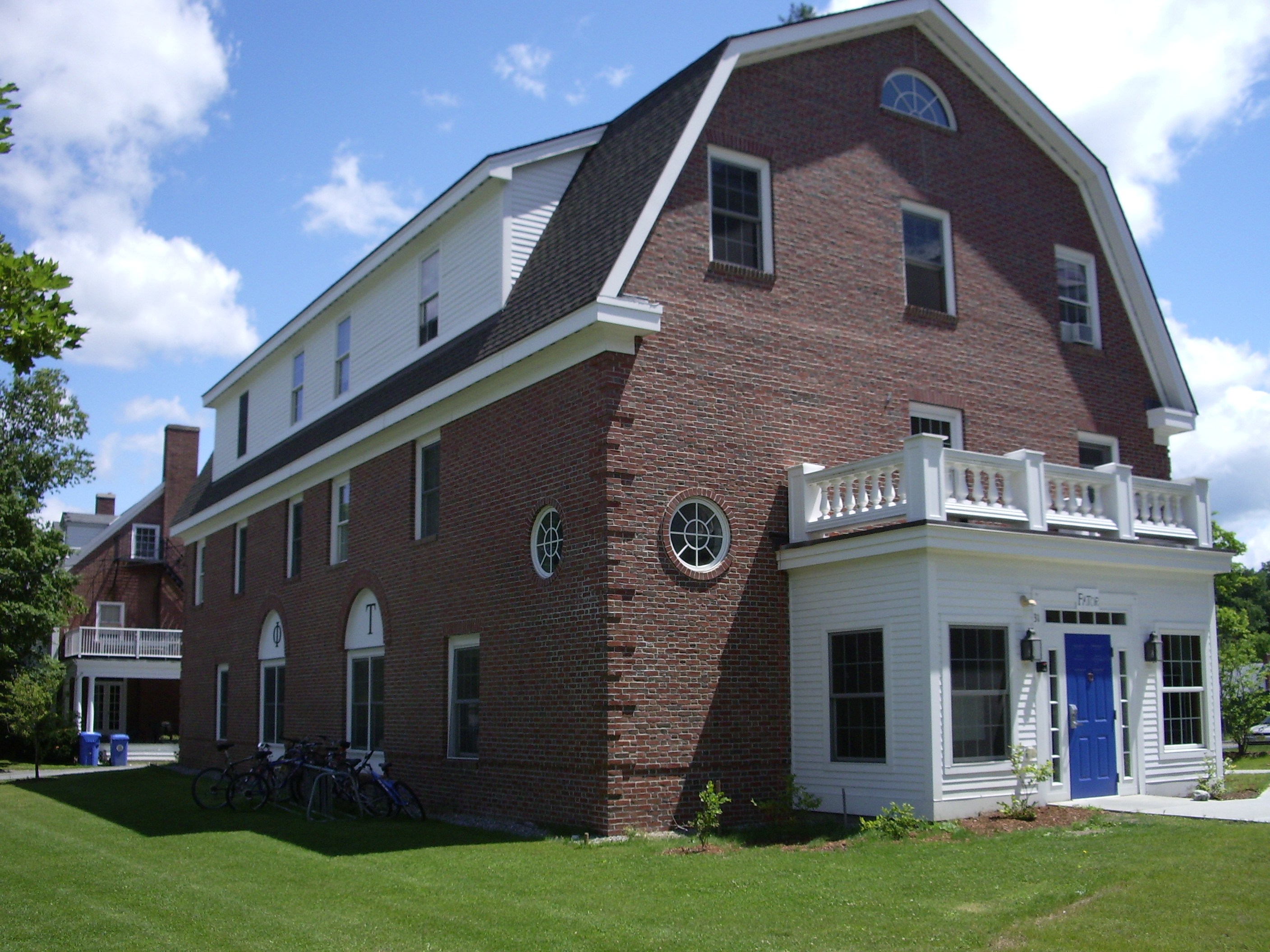 Photograph of Phi Tau at the campus of Dartmouth College in Hanover, New Hampshire.